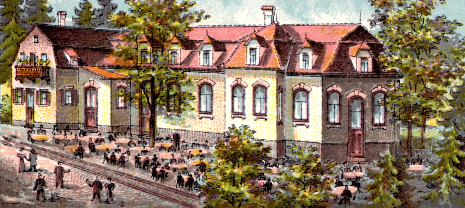 Spickel Restaurant, Augsburg, 1899, Architect: Josef Schempp